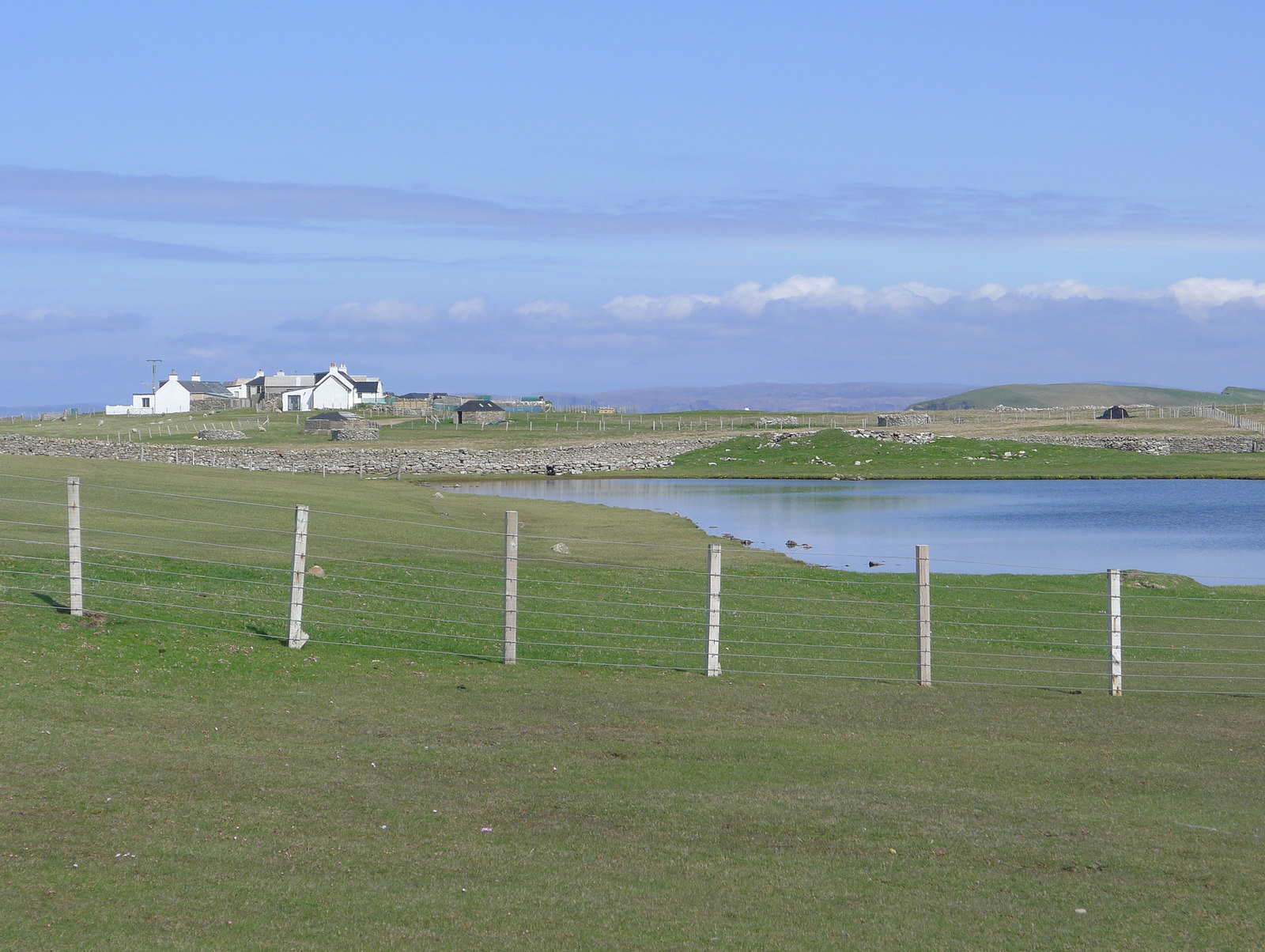 Loch of Huxter